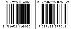 The difference between ISBN-10 and ISBN-13